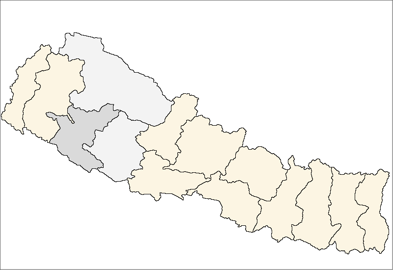 FrenchCarte de localisation de lazone de Bheri(wp-FR),au Népal (wp-FR).EnglishLocation map ofBheri Zone(wp-EN),in Nepal (wp-EN).